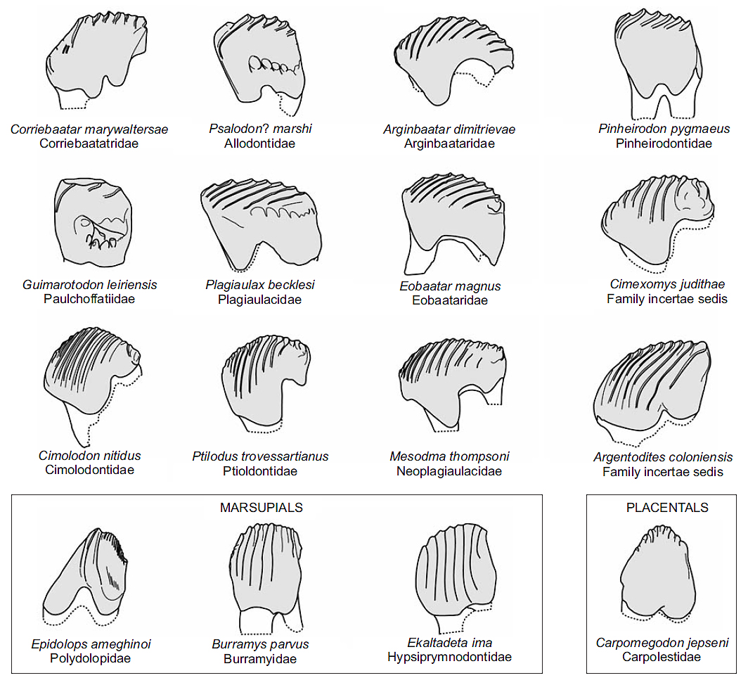 Original figure caption: Plagiaulacoid premolars (labial views) of selected multituberculates and other mammals. Illustrations: Argentodites coloniensis (Kielan−Jaworowska et al. 2007); Burramys parvus (NMV C22693); Carpomegodon jepseni (Bloch et al. 2001); Cimexomys judithae (Montellano et al. 2000); Cimolodon nitidus (Clemens 1963); Ekaltadeta ima (Archer and Flannery 1985); Eobaatar magnus (Kielan−Jaworowska et al. 1987); Epidolops ameghinoi (Paula Couto 1952); Guimarotodon leiriensis (Kielan−Jaworowska et al. 2004); Mesodma thompsoni (Clemens 1963); Pinheirodon pygmaeus (Hahn and Hahn 1999); Plagiaulax becklesi (Kielan−Jaworowska et al. 1987); Psalodon? marshi (Simpson 1929); Ptilodus trovessartianus (Granger and Simpson 1929). Compiled by Erich Fitzgerald.